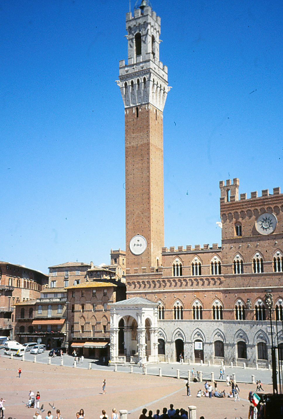 The City Hall in Siena, Italy. June 19, 2007.